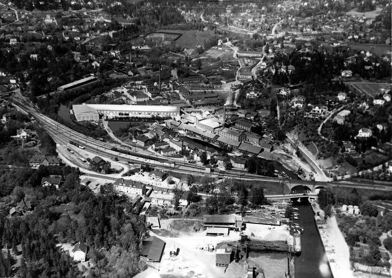 Aerial view of Lysaker, including Lysaker kemisk fabrikk and Lysaker Station, Bærum, Norway.